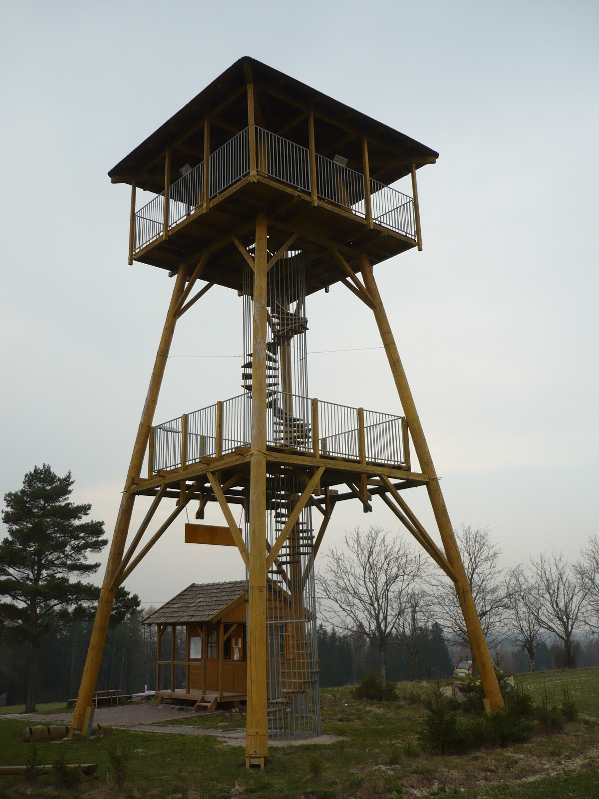 Toulovcova Observing tower near Budislav